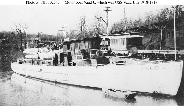 The civilian motorboat Vaud J. prior to her United States Navy service as the patrol vessel